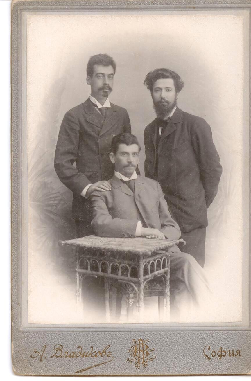 Mihail Gerdzhikov and Peyo Yavorov by Alexandar Vladikov, 1901-1902